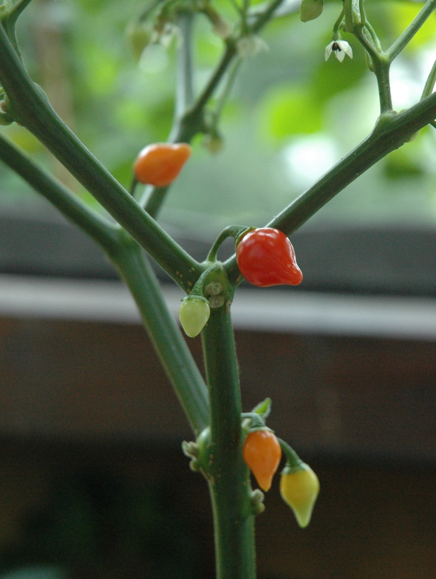 Fruits of unknown Capsicum chinense ssp.